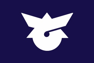 Flag of Murata Miyagi